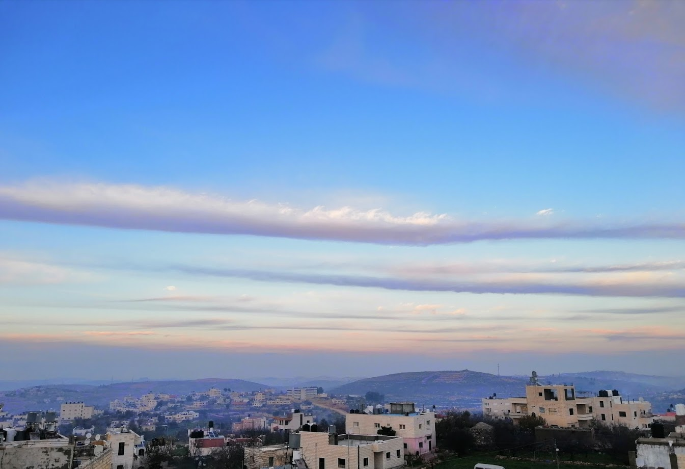 Mountains in Hebron, Palestine